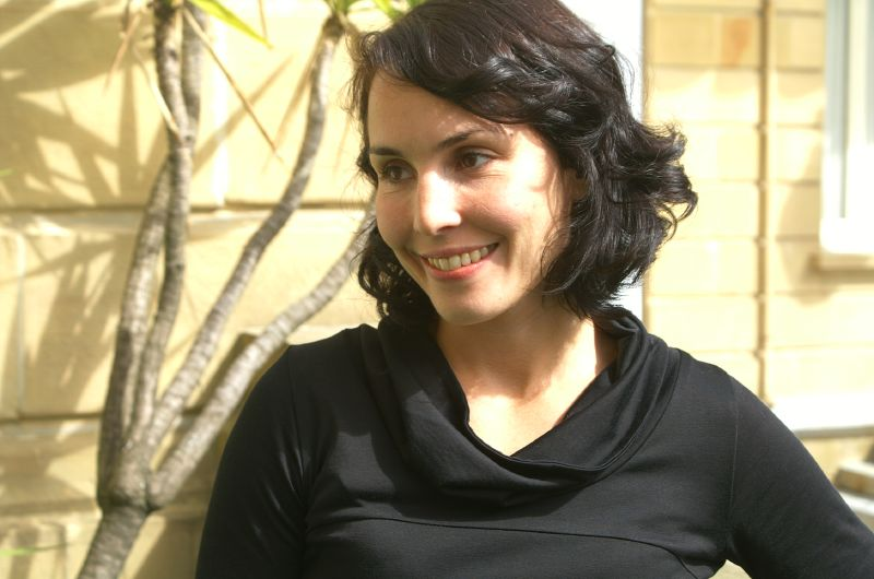 Noomi Rapace at the San Sebastián Film Festival for the showing of "Daisy Diamond"